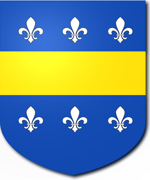 Adamo shield (Venice-1500)